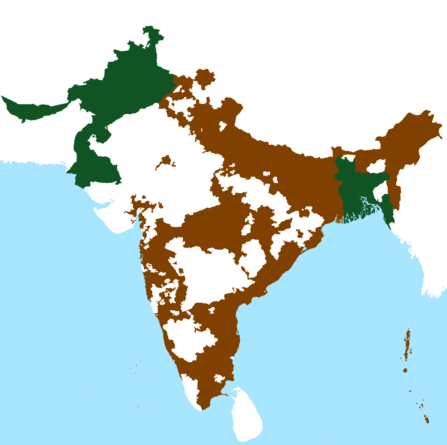 A map of the territorial extent of India and Pakistan immediately after Independence